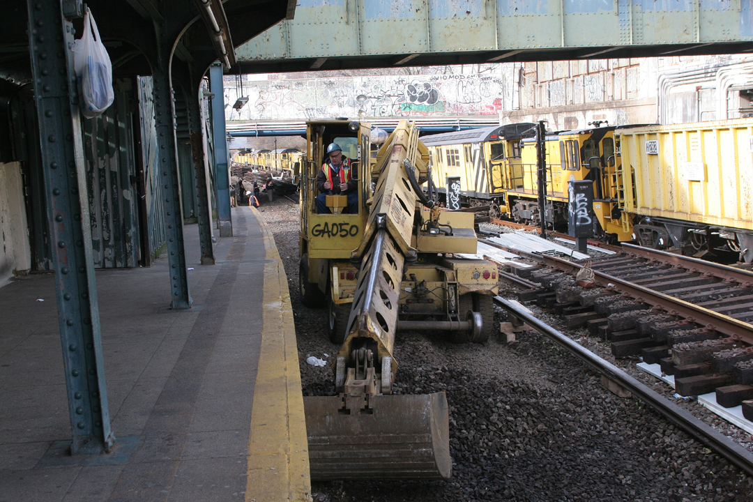 This weekend, workers replaced panels of track on the N Line near 8 Av in Brooklyn. This photo shows a worker using a gradall machine to remove old ballast and resurface the roadbed. Photo by Metropolitan Transportation Authority / Leonard Wiggins.